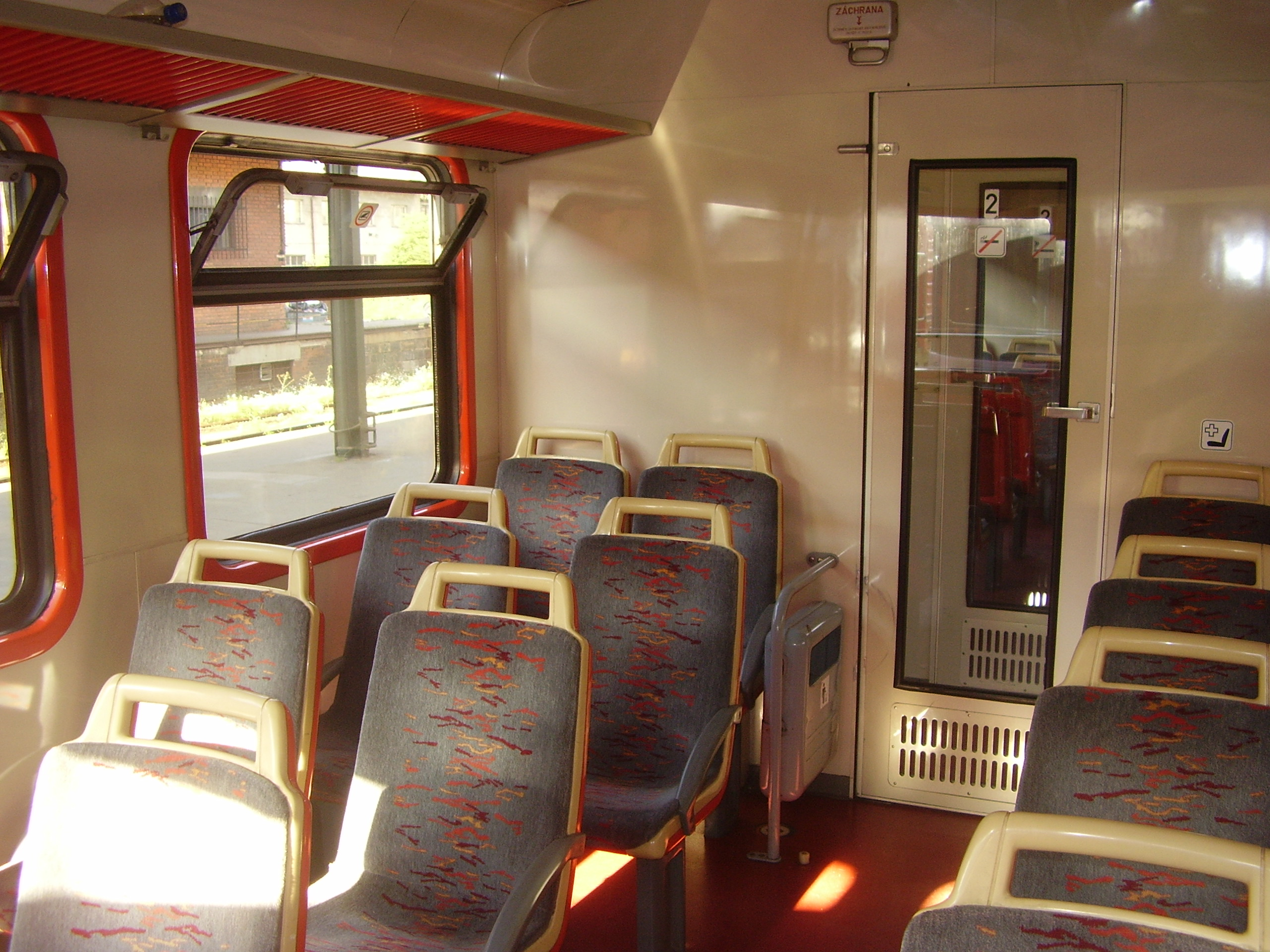 Inside of ČD class 021